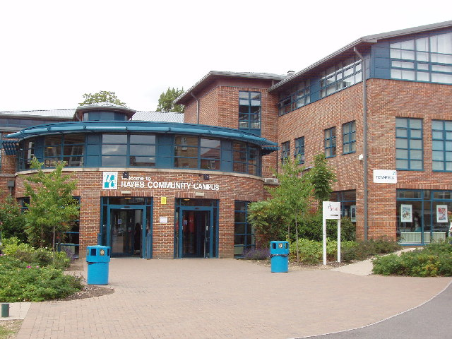 Hayes Community Campus. These new buildings of Uxbridge College include provision for training in dance, hairdressing, and leisure industry courses. Performing arts studios are adjacent.